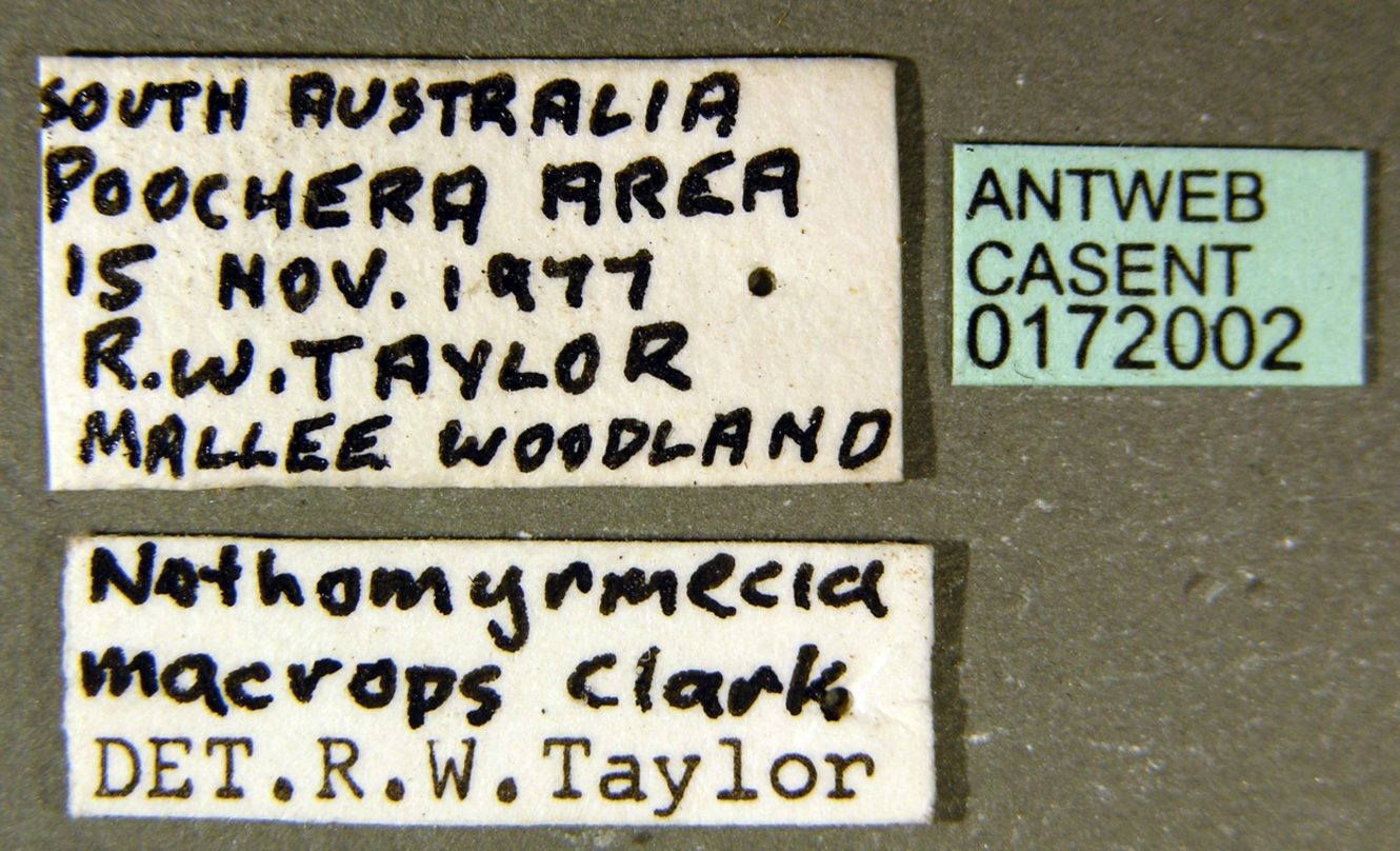 Label view of ant Nothomyrmecia macrops specimen casent0172002.